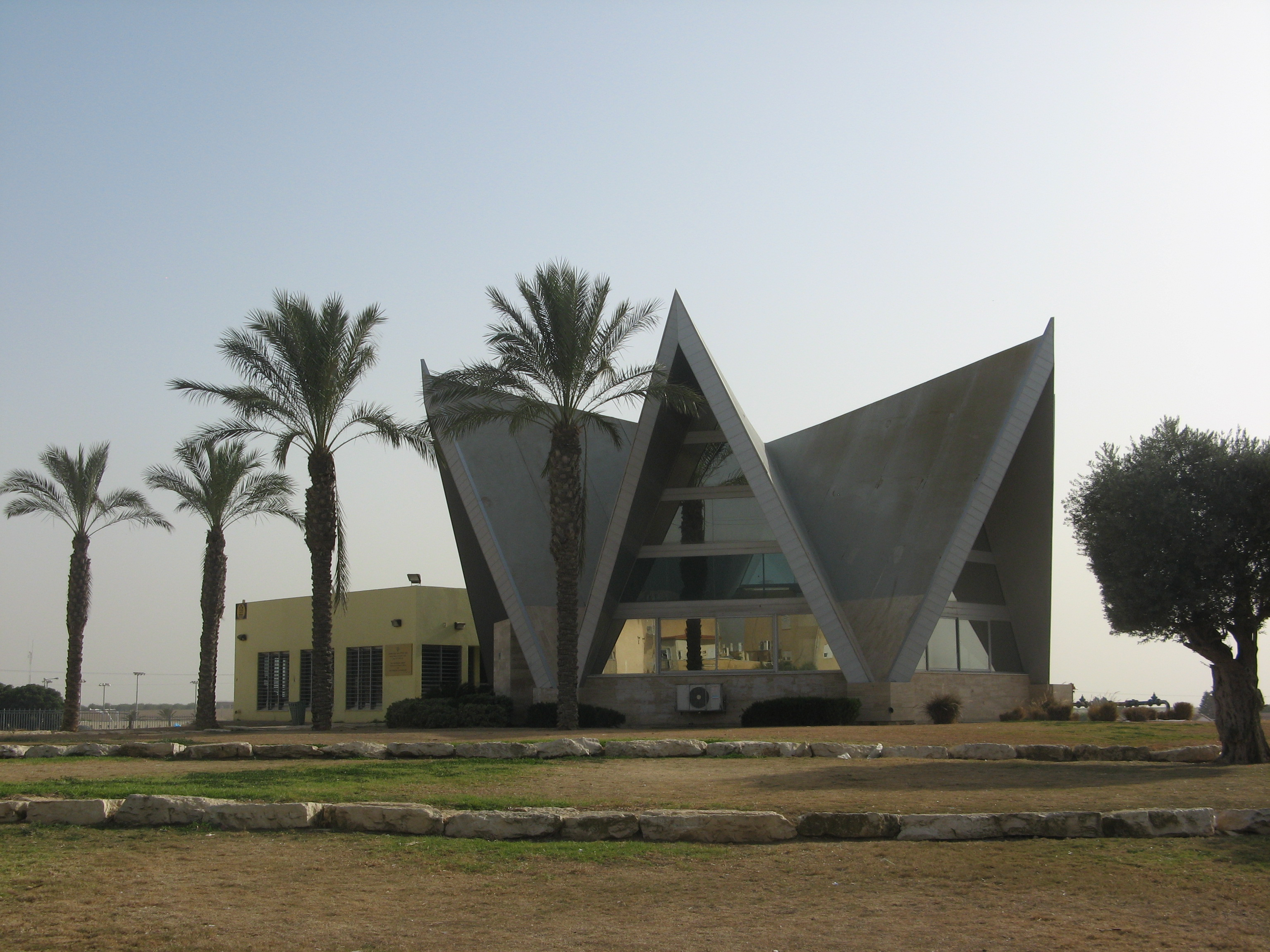 The Ethiopian Community Spiritual Center conducts activities for children, youth, and adults of Ethiopian origin.